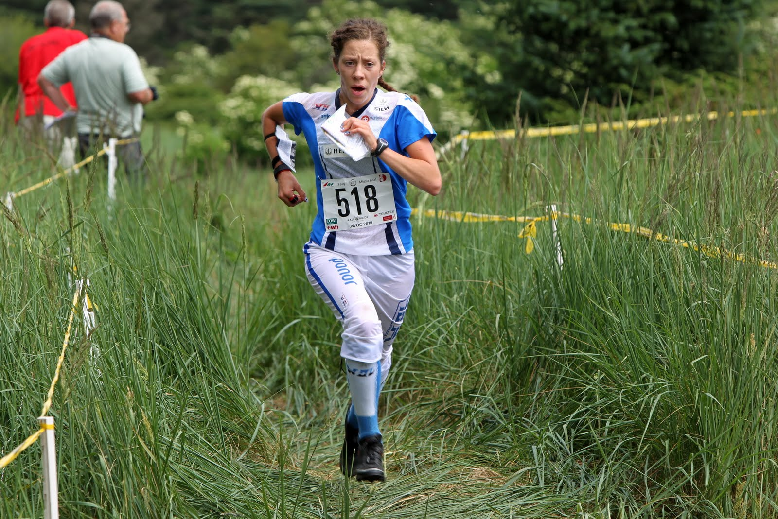 Venla Niemi (FIN) at JWOC 2010